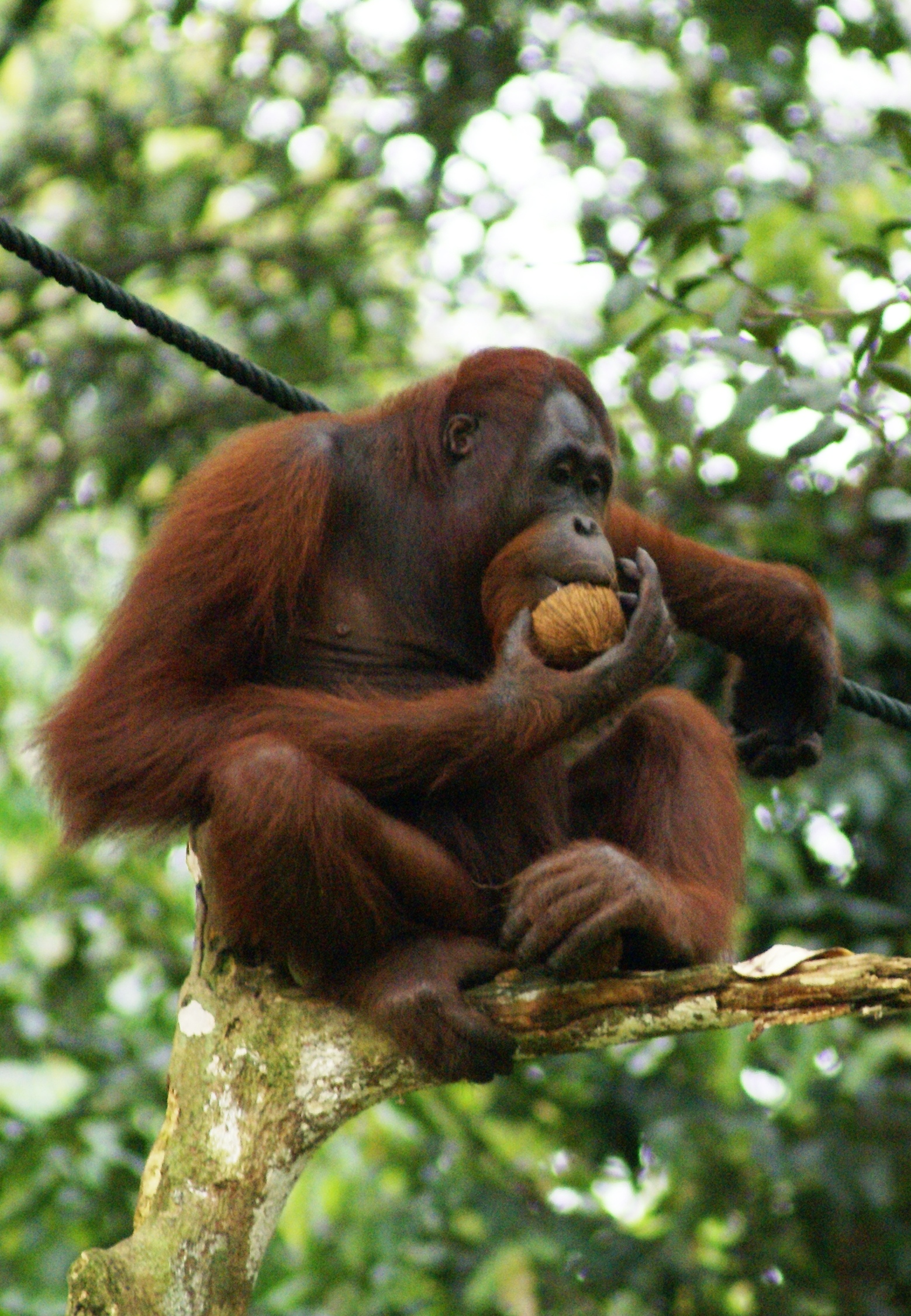 Orang Utan eating a mature Coconut.